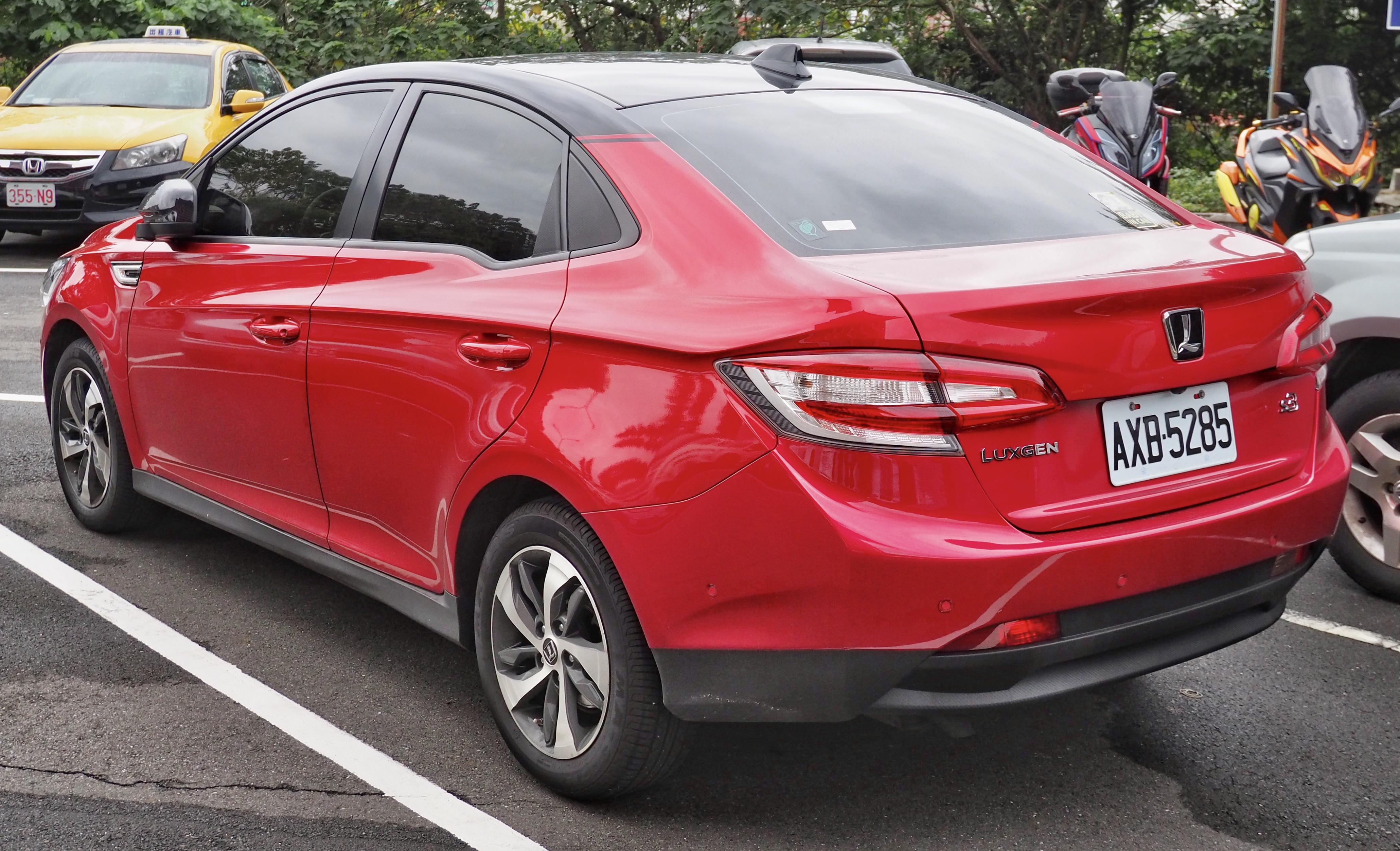 A 2016 Luxgen S3 photographed in Zhongshan District, Taipei, Taiwan.